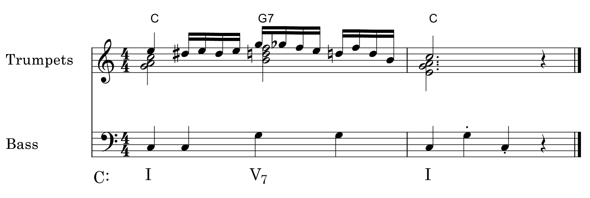 A lead part proceeding moderately independent from the section is sometimes effective in four voice sectional harmony especially for embellishments.